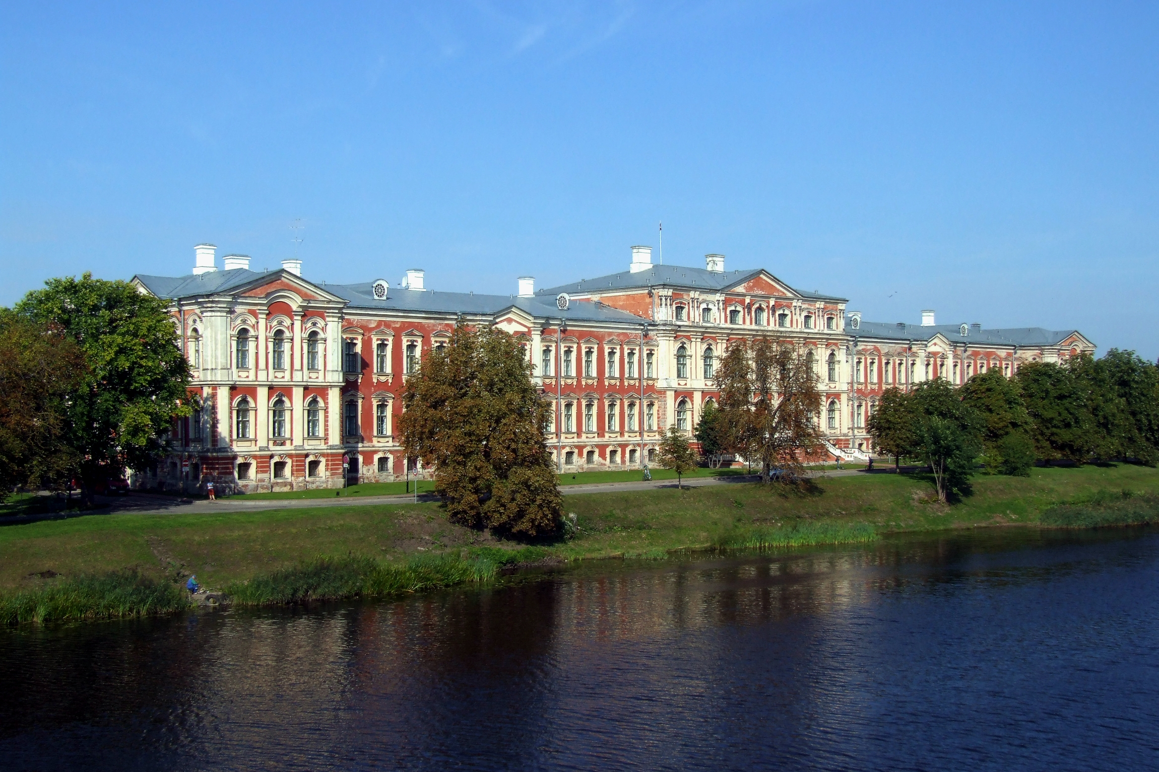 Jelgava Castle (Jelgavas pils), Latvia